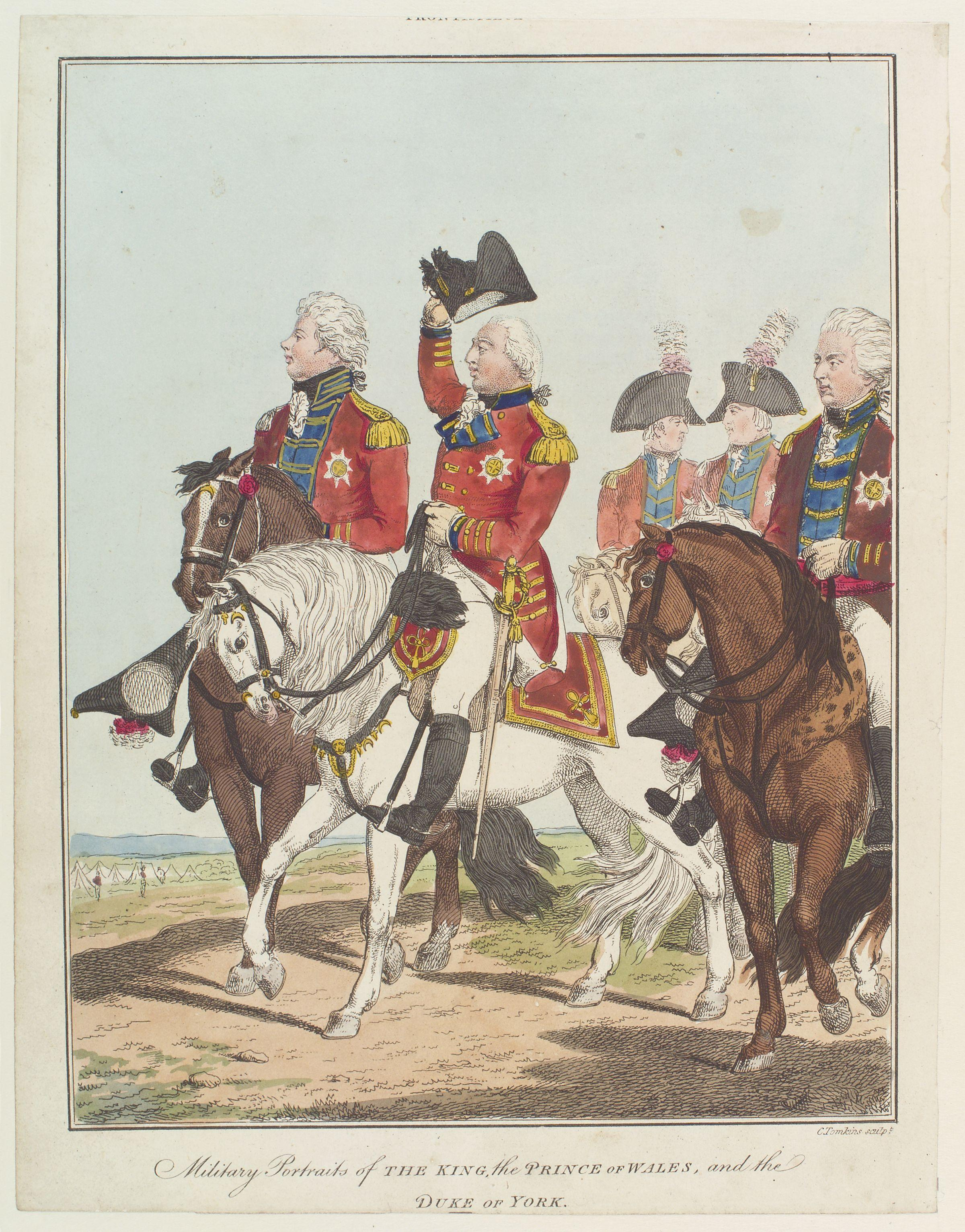 King George IV; King George III; Frederick, Duke of York and Albany, by Charles Tomkins. All images in this batch have a known author, but have manually examined for strong evidence that the author was dead before 1939, such as approximate death dates, birth dates, floruit dates, and publication dates.